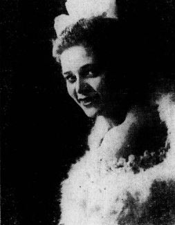 Australian circus and vaudeville performer May Wirth (1894 – 1978), on page 3 of the March 3, 1922 Variety.